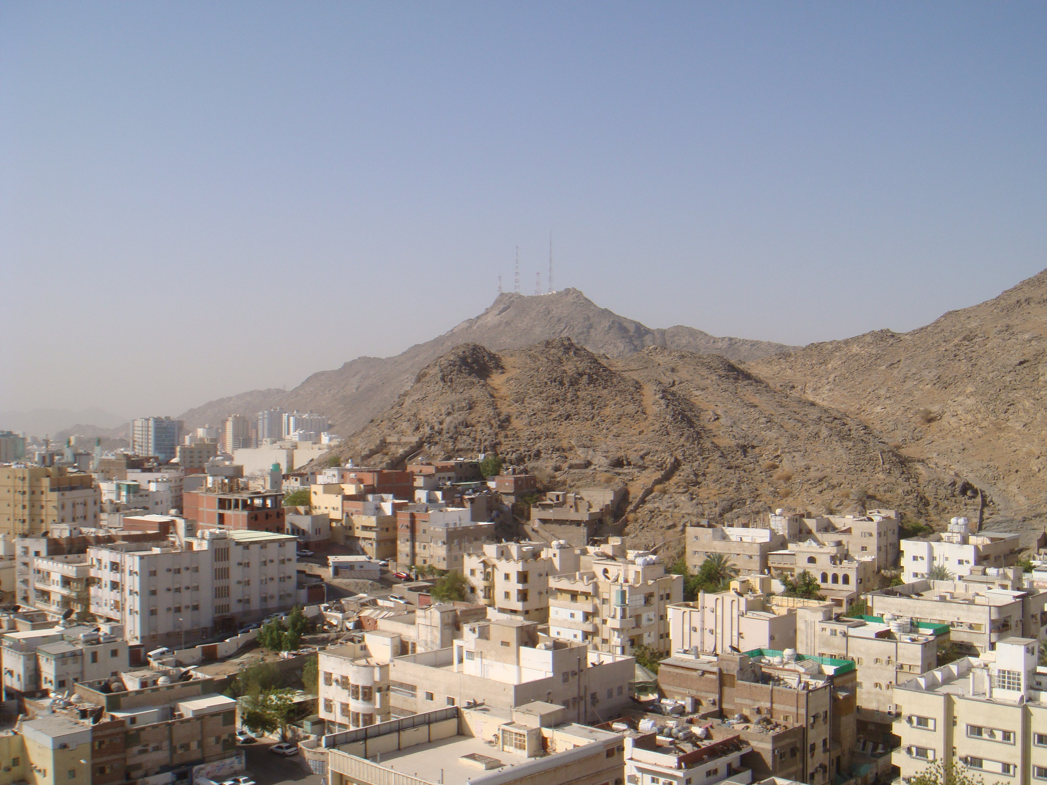 Makkah Azizia district at noon